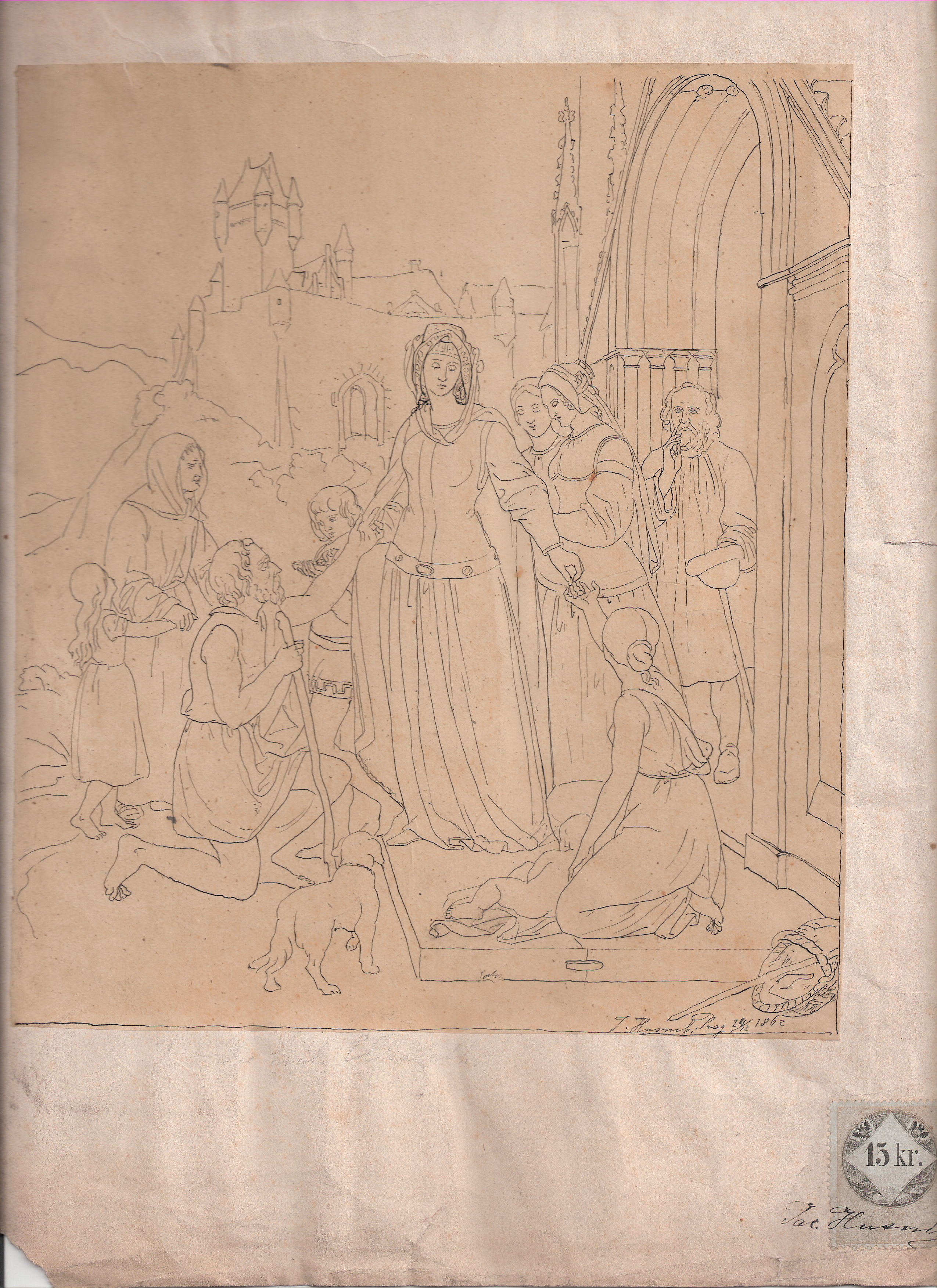 Painting from Jakub Husník